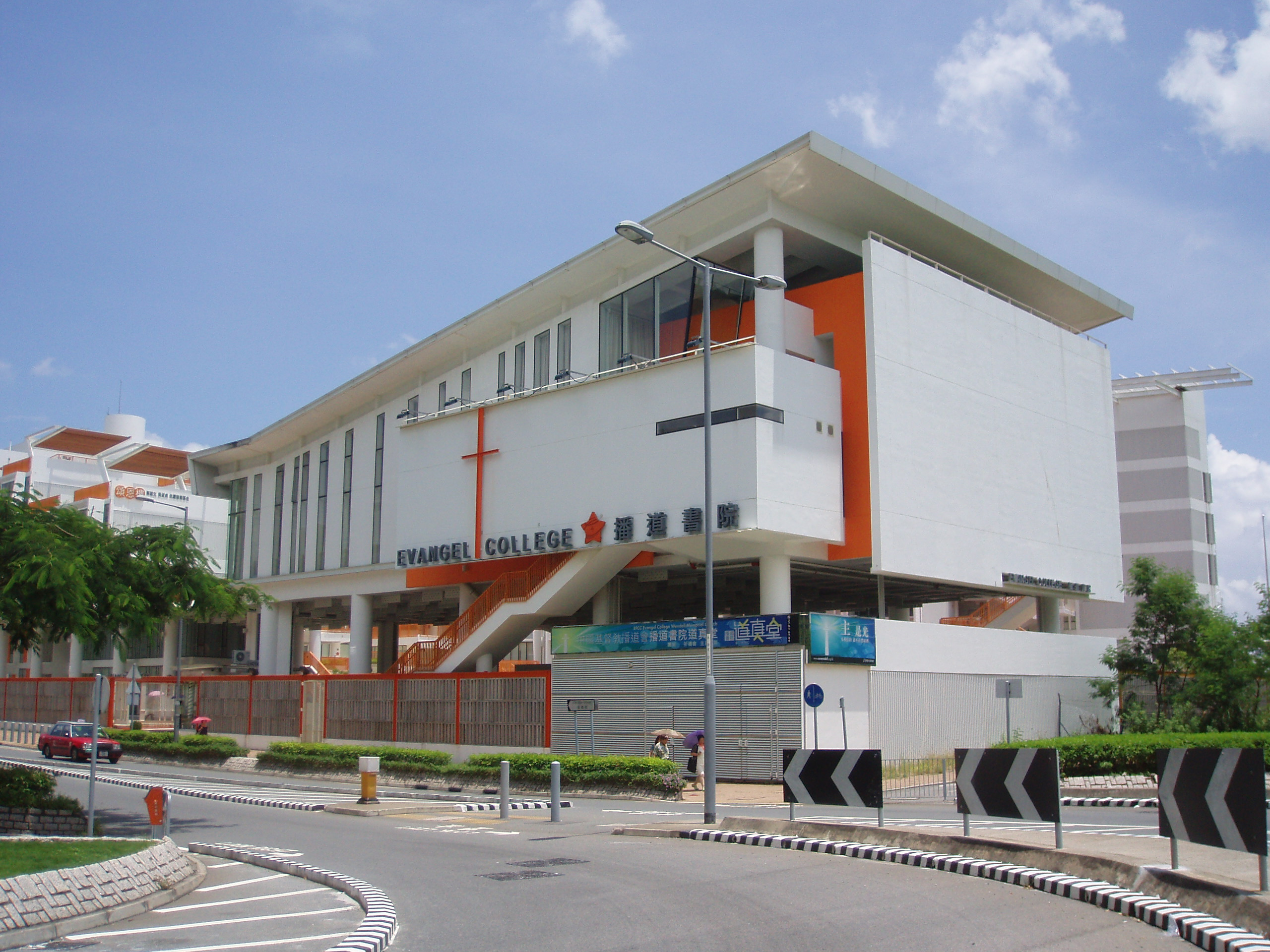 Chi Shin Street, Evangel College secondary section (2009)